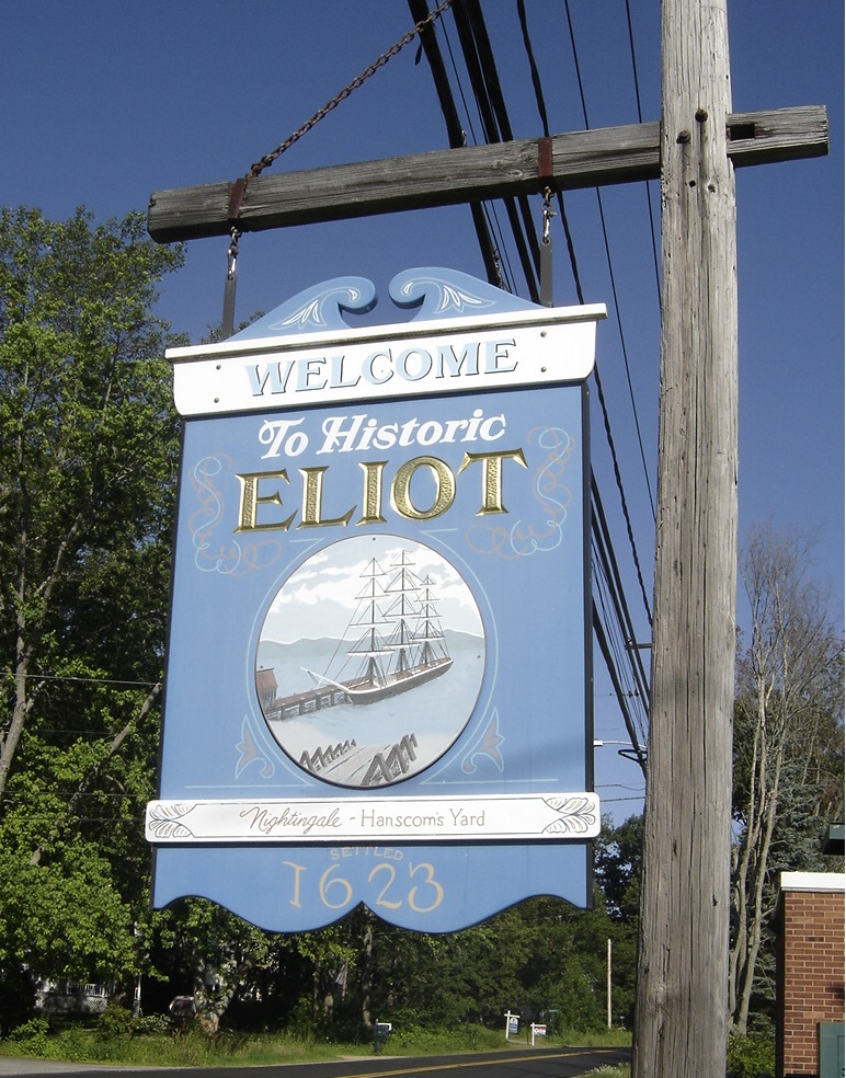 Welcome to Historic Eliot sign showing the tea clipper Nightingale built at Hanscom's Shipyard in 1851, on Maine Route 103 in South Eliot, Maine (July 2012)